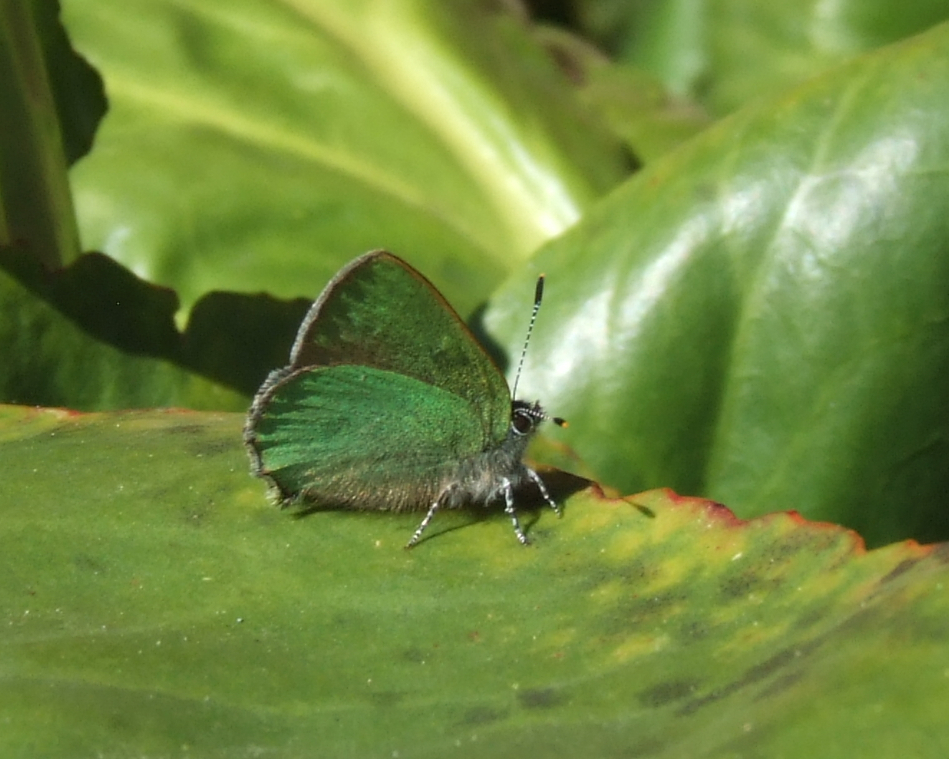 Green Hairstreak (Callophrys rubi) in Oulu, Finland